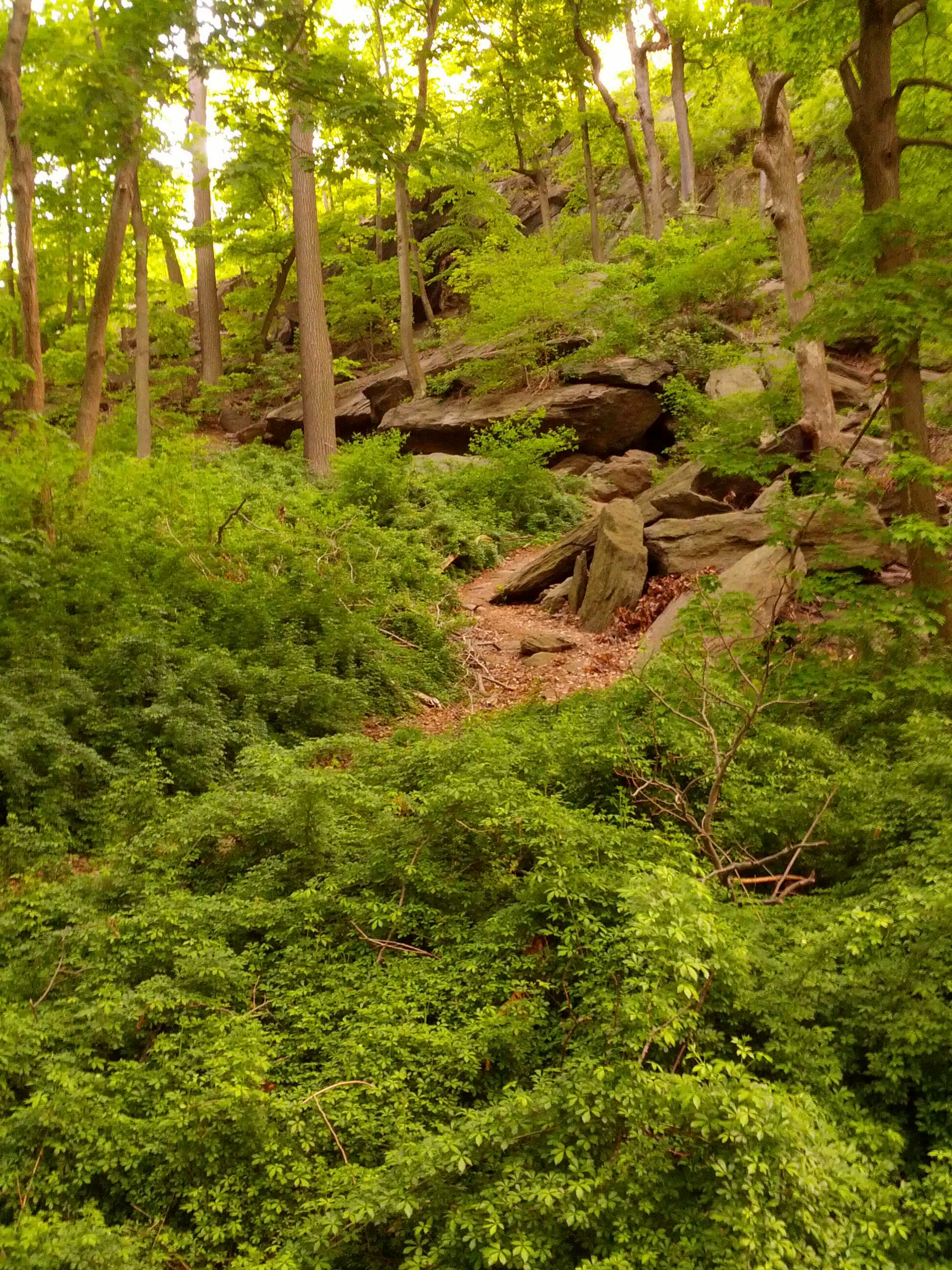 Native American caves in Inwood Hill Park, May 2013